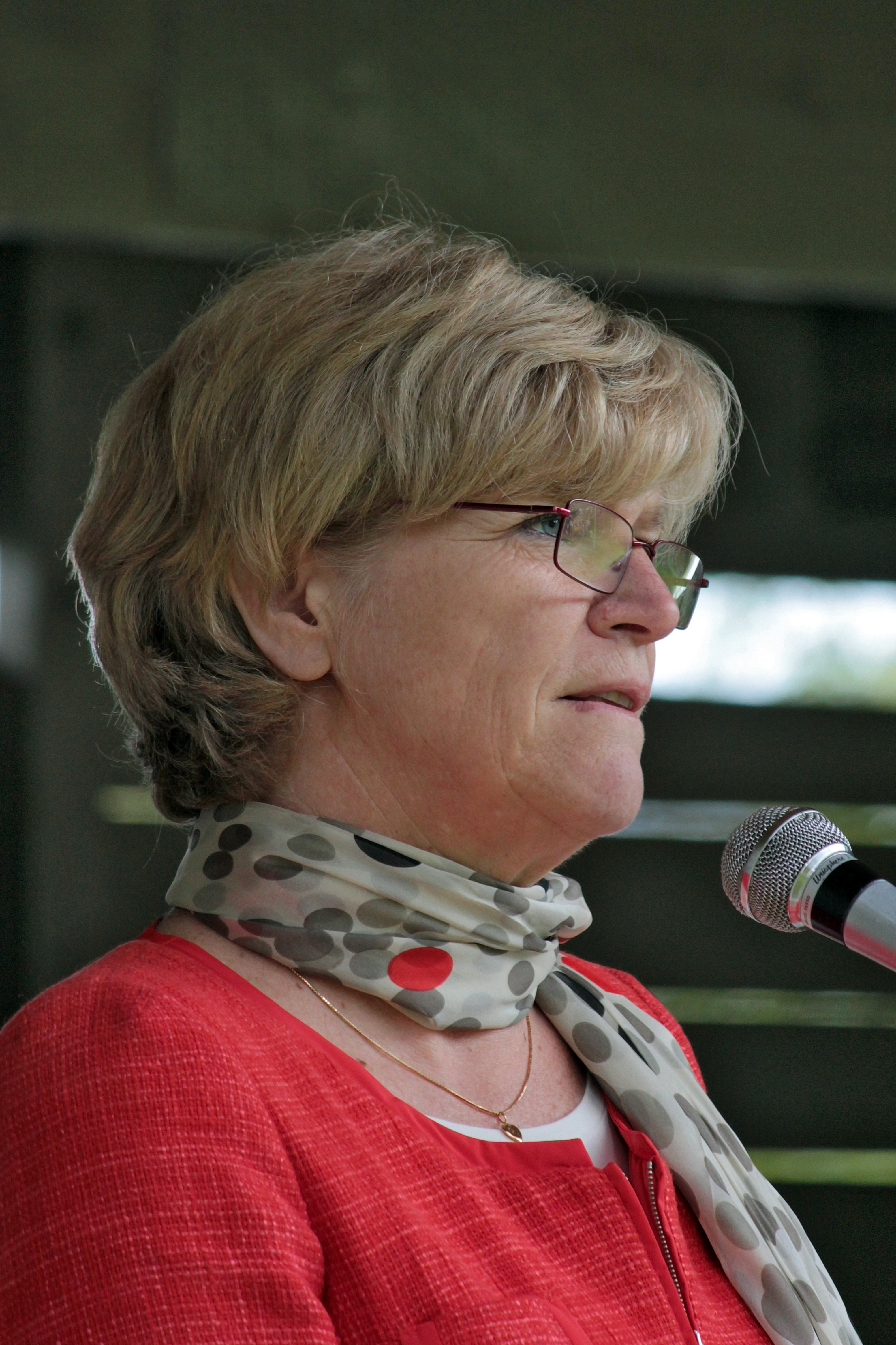 Maria Norrfalk, County Governor of Dalarna, holding a speech at Sweden's National Day in local heritage center Hedemora Gammelgård.